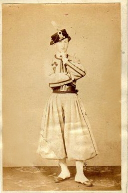 Michele Mang (documented between 1860 and 1887 ca.) - Rome. A zouave soldier of the Pope (before 1870). Recto. Verso.